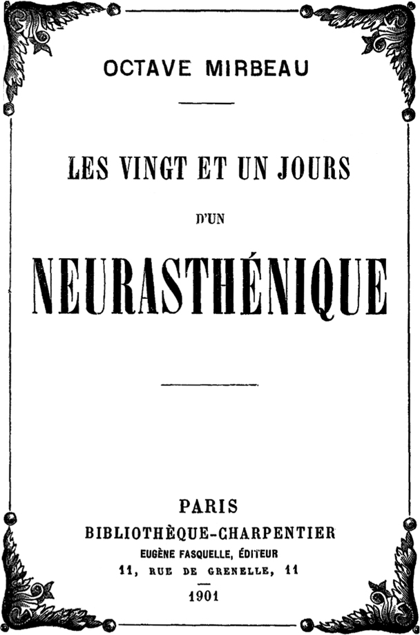 The 21 Days of a Neurasthenic (1901) by Octave Mirbeau (1848-1917)